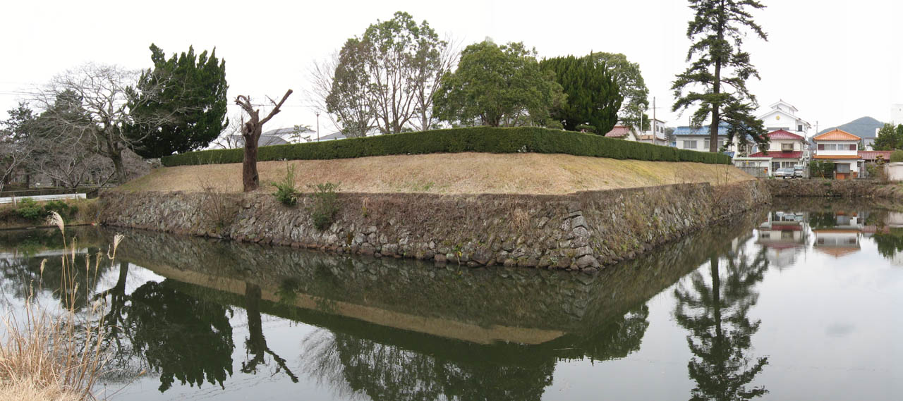 Photograph of the remnant of an umadashi kuruwa oustide Sasayama Castle's east gate.